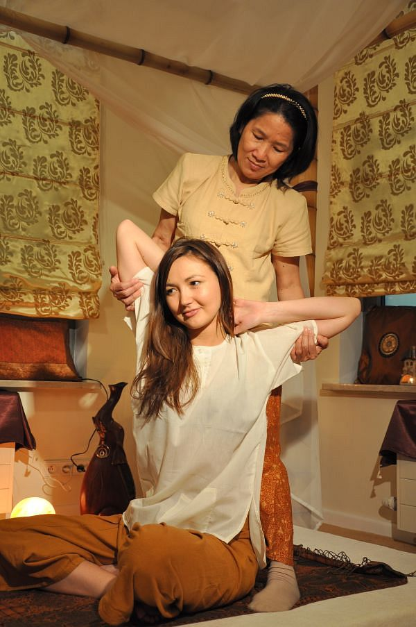 Back massage